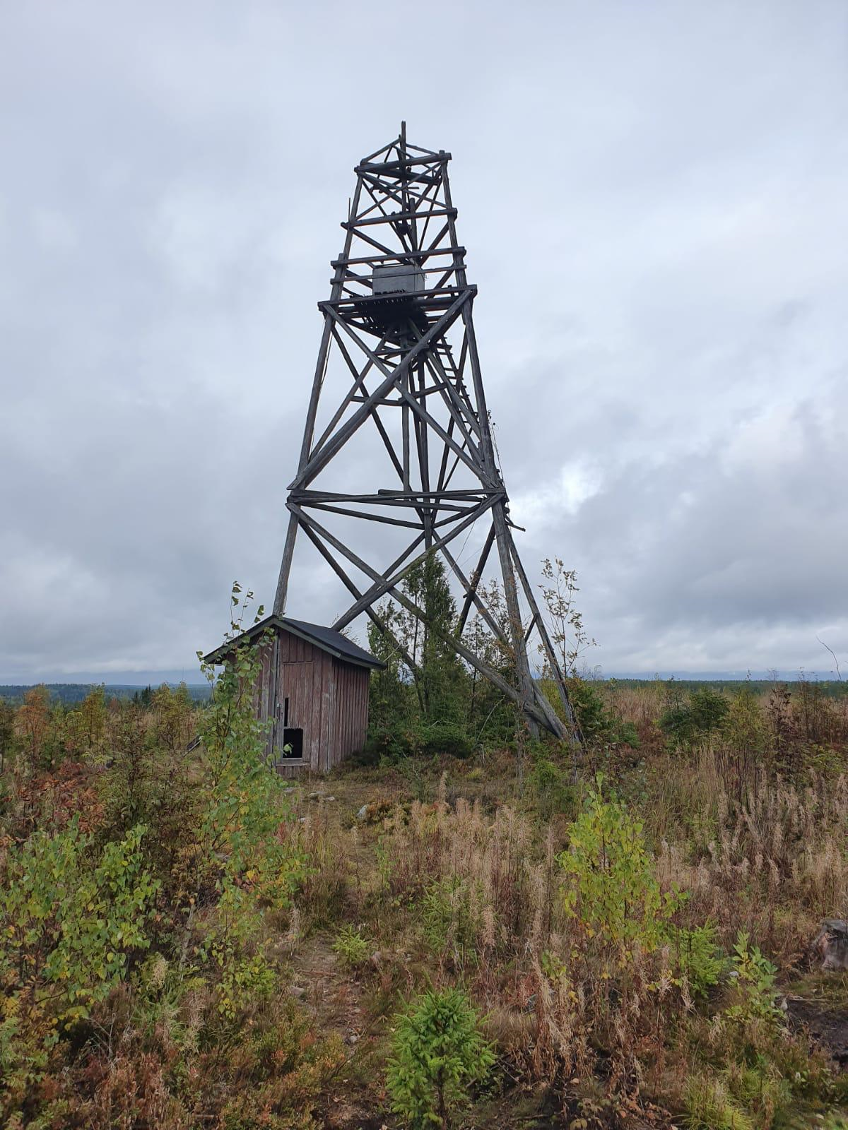 Old Loukkumäki observation tower.